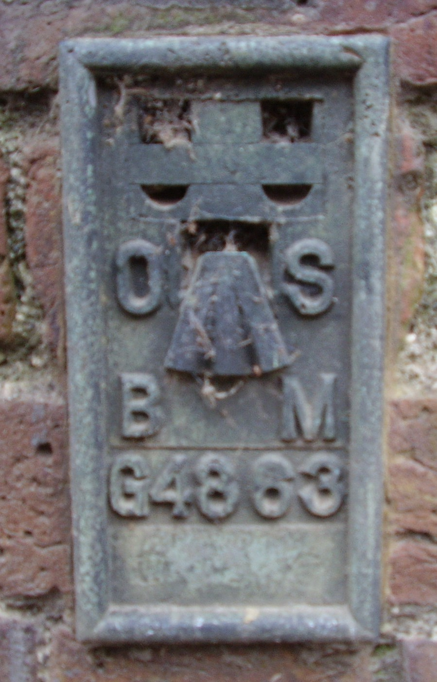 Ordance Survey flush bracket